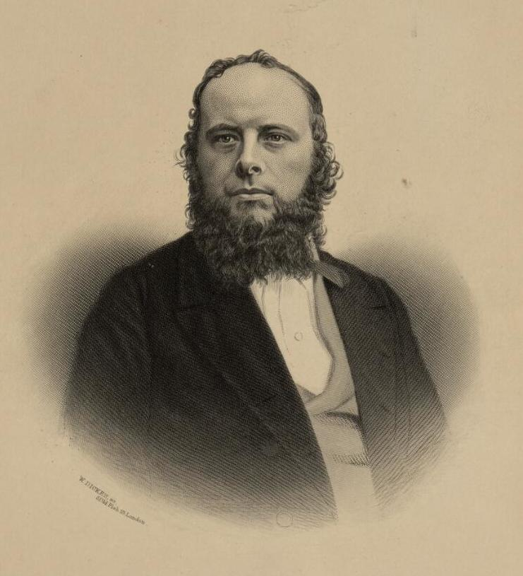 A portrait from the Welsh Portrait Collection at the National Library of Wales. Depicted person: John Owen – Welsh poet, singer and musician